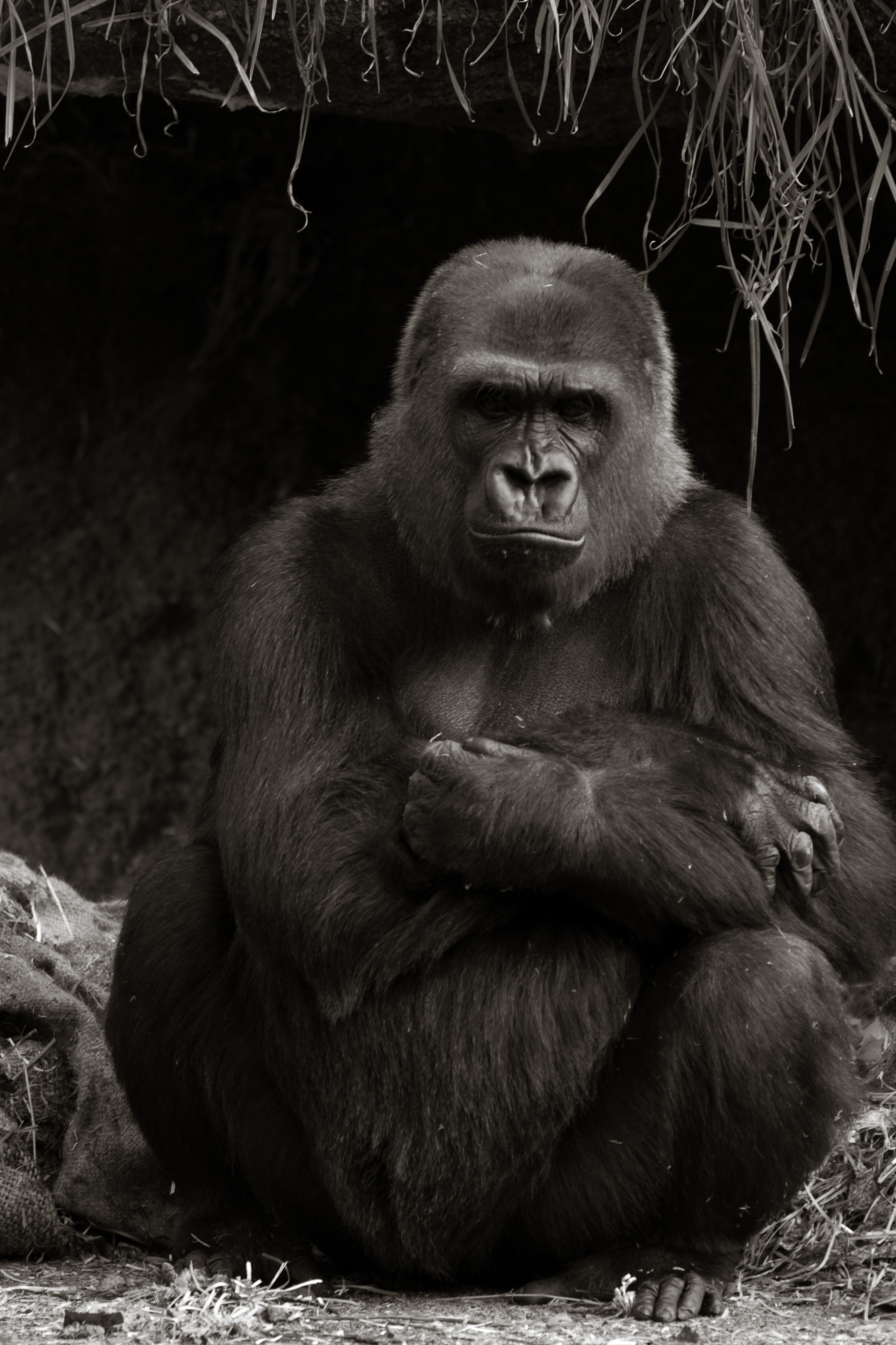 Gorilla gorilla The Western Lowland Gorilla lives in troops of up to 30 gorillas. The groups are usually harmonious since there are no marked friendships between gorillas in a group. Distinct friendships can lead to jealousies and squabbling.